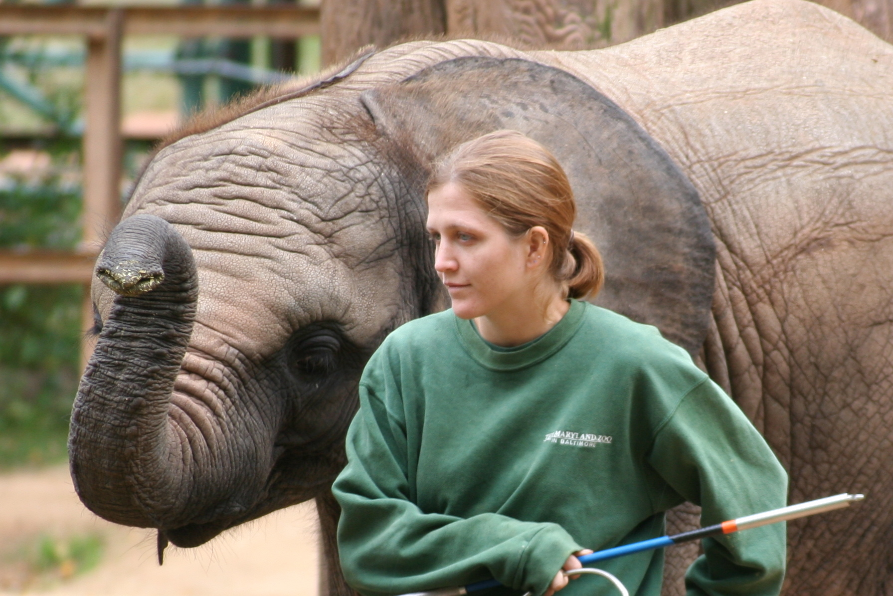 Baby elephant at Maryland Zoo in Baltimore, Maryland, USA.